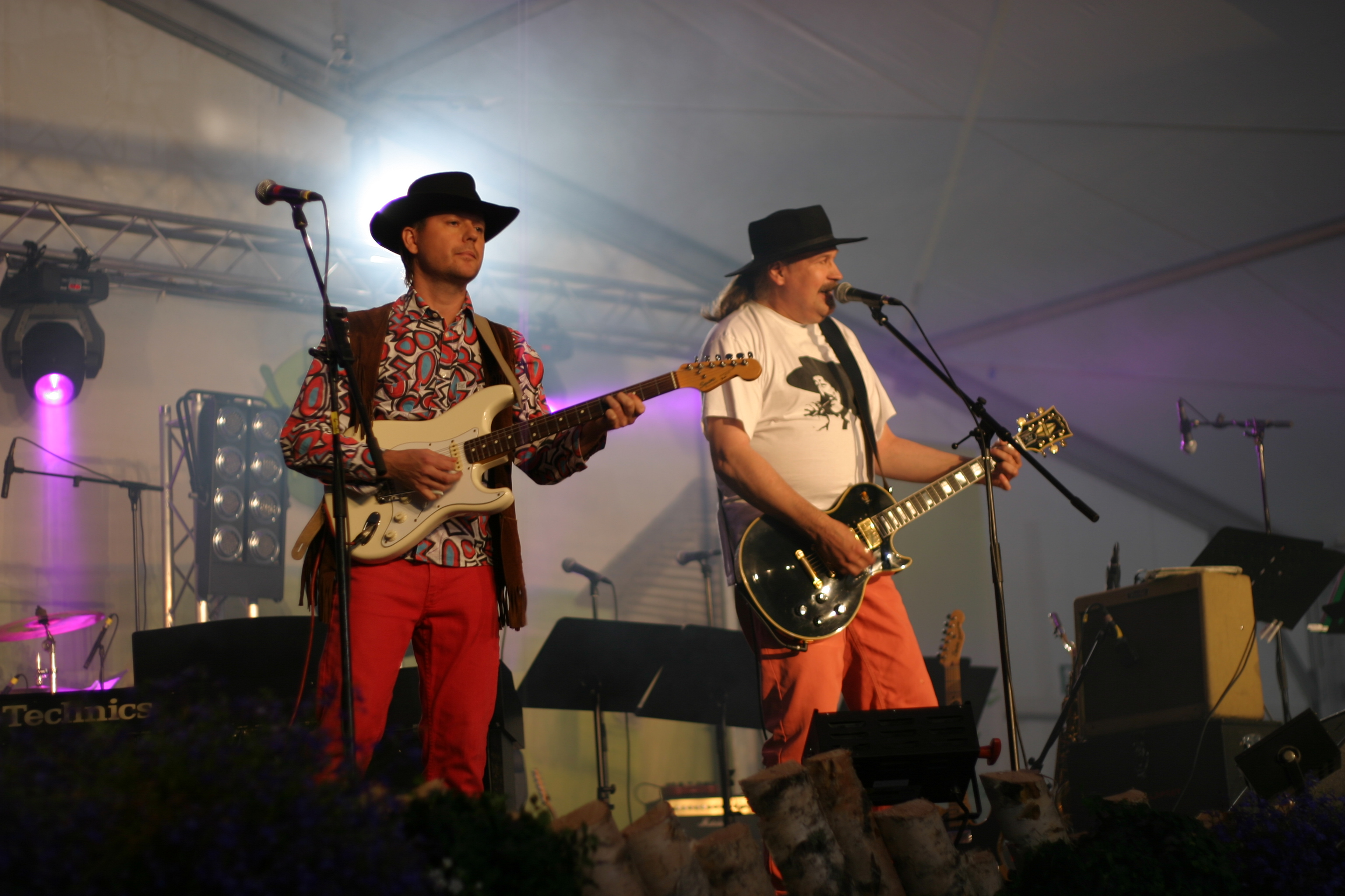 Irwinin Lapset in Vihreät Niityt music festival in the summer 2007.